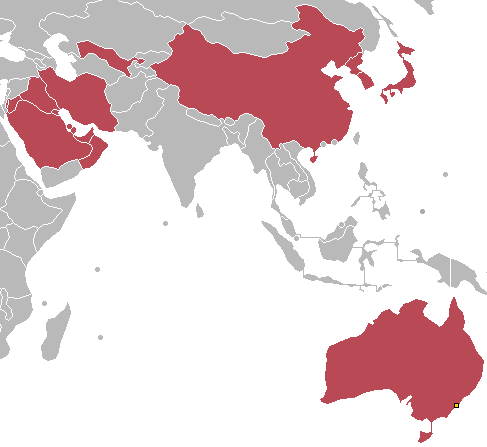 Results of the 2015 AFC Asian Cup.Oʻzbekcha/ўзбекча: AFC Osiyo kubogi 2015 natijalari